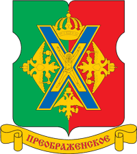 Preobrazhenskoye (rayon of Moscow), coat of arms